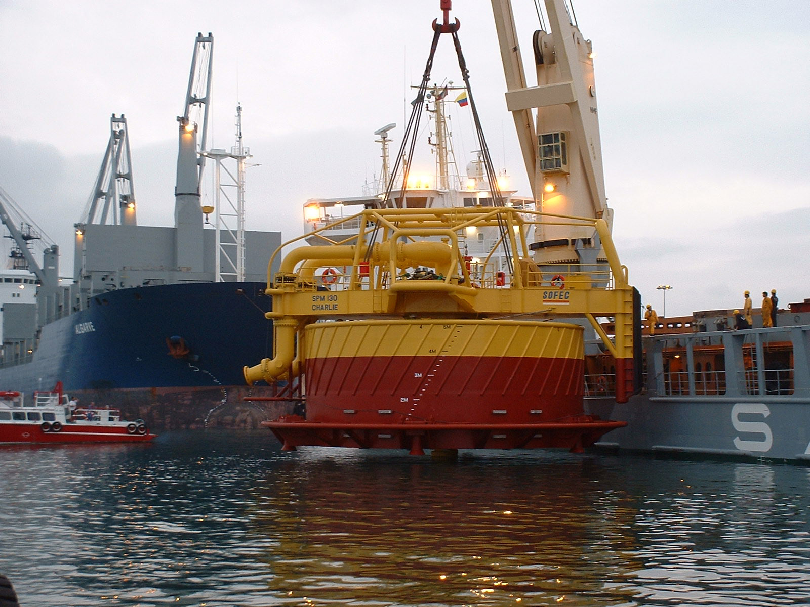 Puerto Comercial